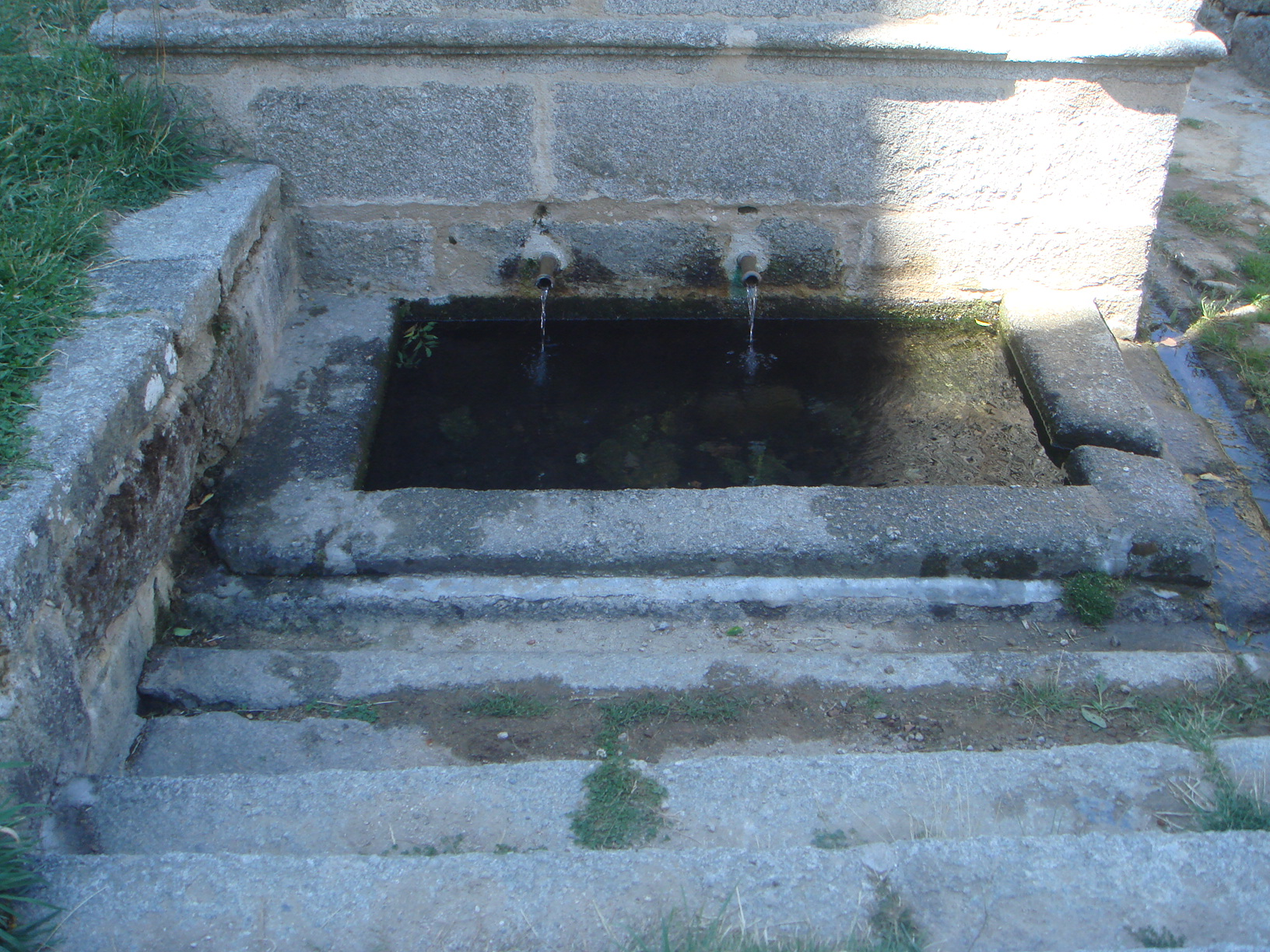 Sources in the Ermita de las Fuentes, San Juan del Olmo (Ávila), Spain, where the river rises Almar